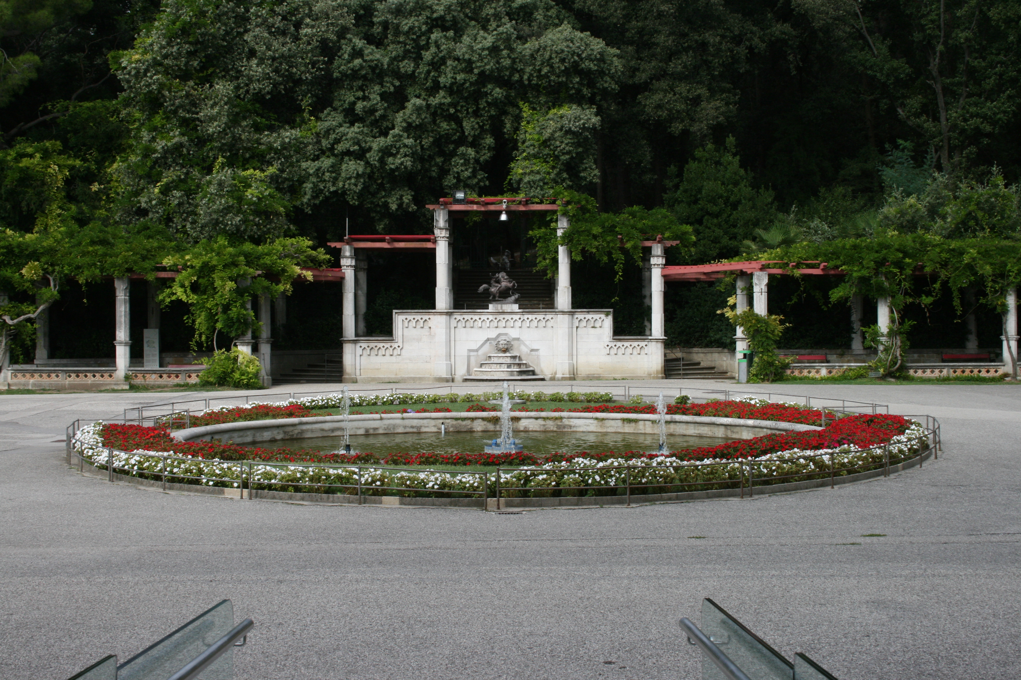 Fountain of the castle Miramare, with view to the garden